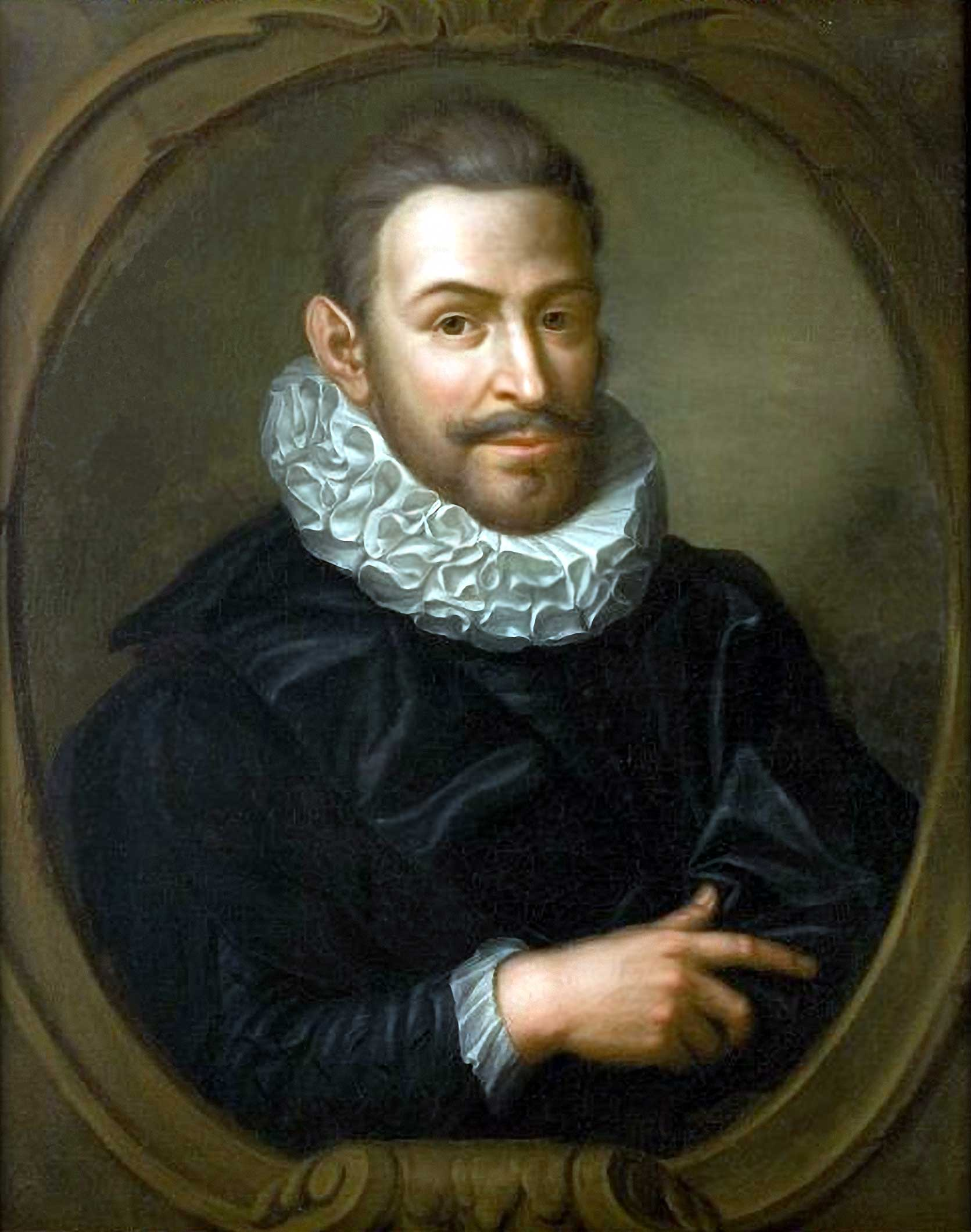 Petrus Cunaeus (1586-1638) Dutch scholar and jurist